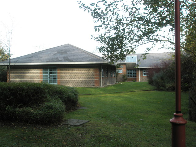 The Meadows Outpatients Clinic Part of Coldeast Hospital, Sarisbury Green